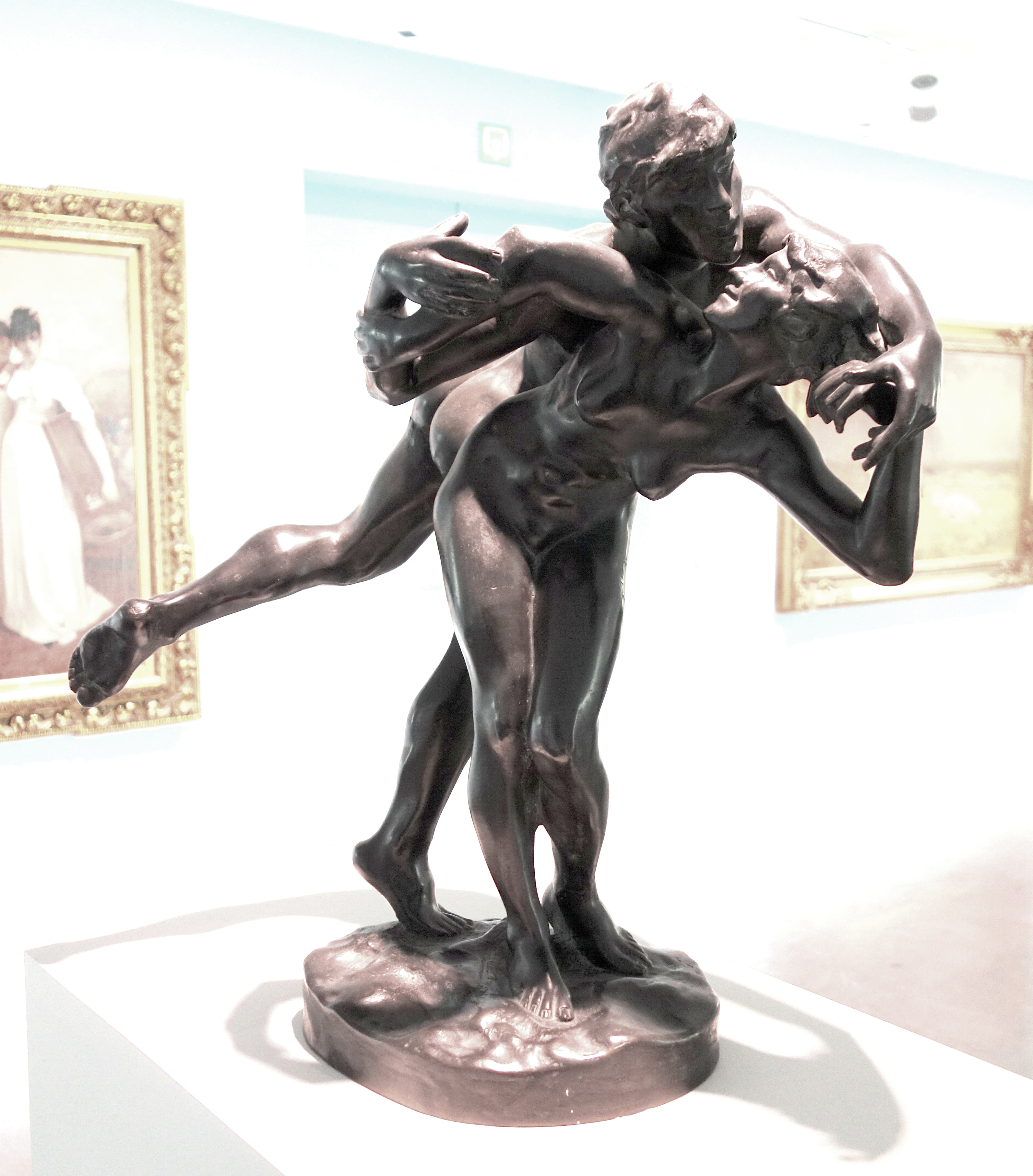 Exhibit in the Museum M - Leuven, Belgium. This artwork is in the public domain because the artist died more than 70 years ago.